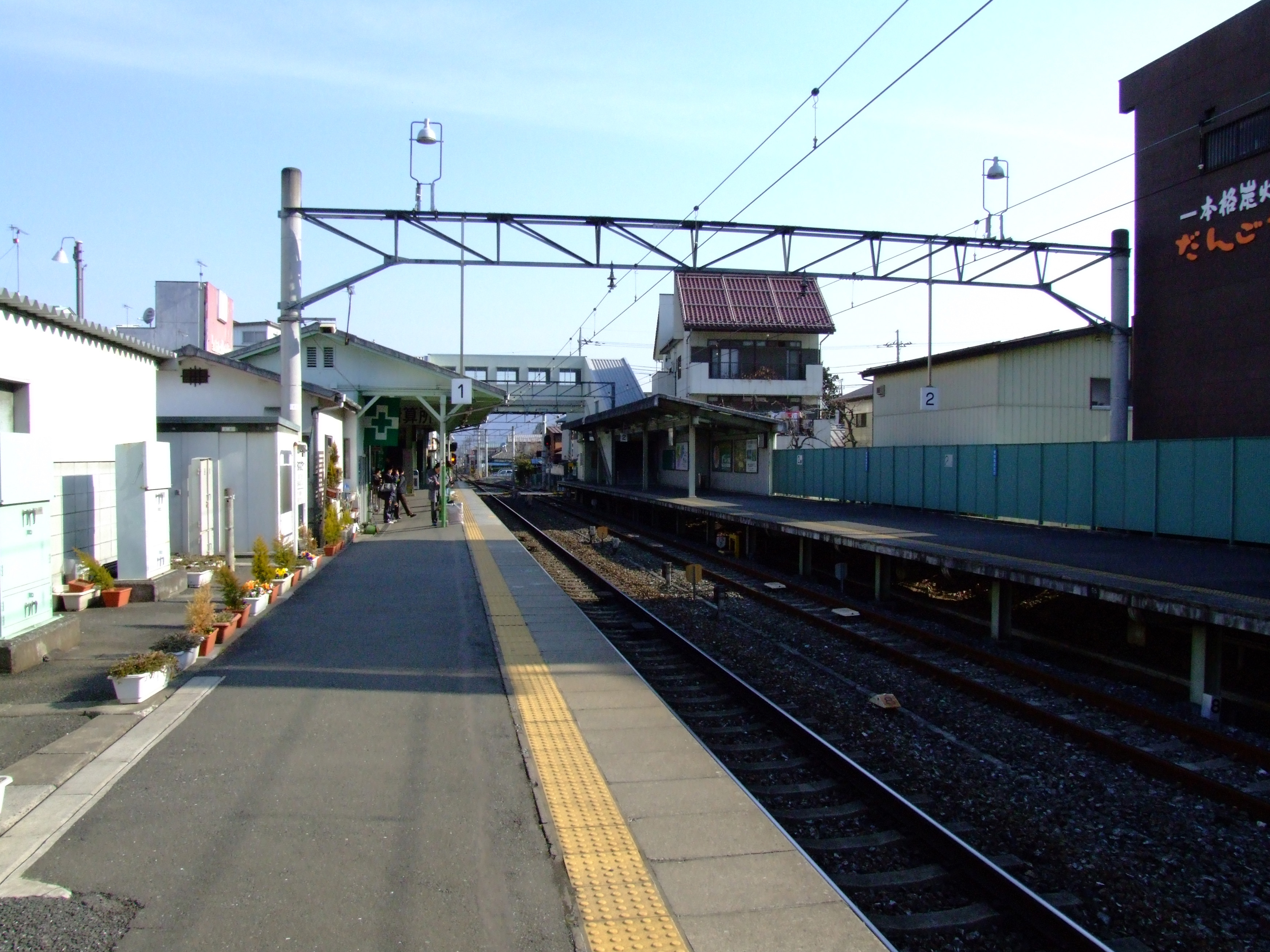 The view looking northward on platform 1 at Ohanabatake Station on the Chichibu Main Line